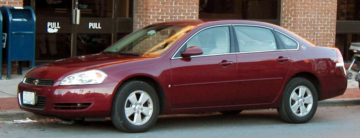 2006-2007 Chevrolet Impala LS photographed in USA.